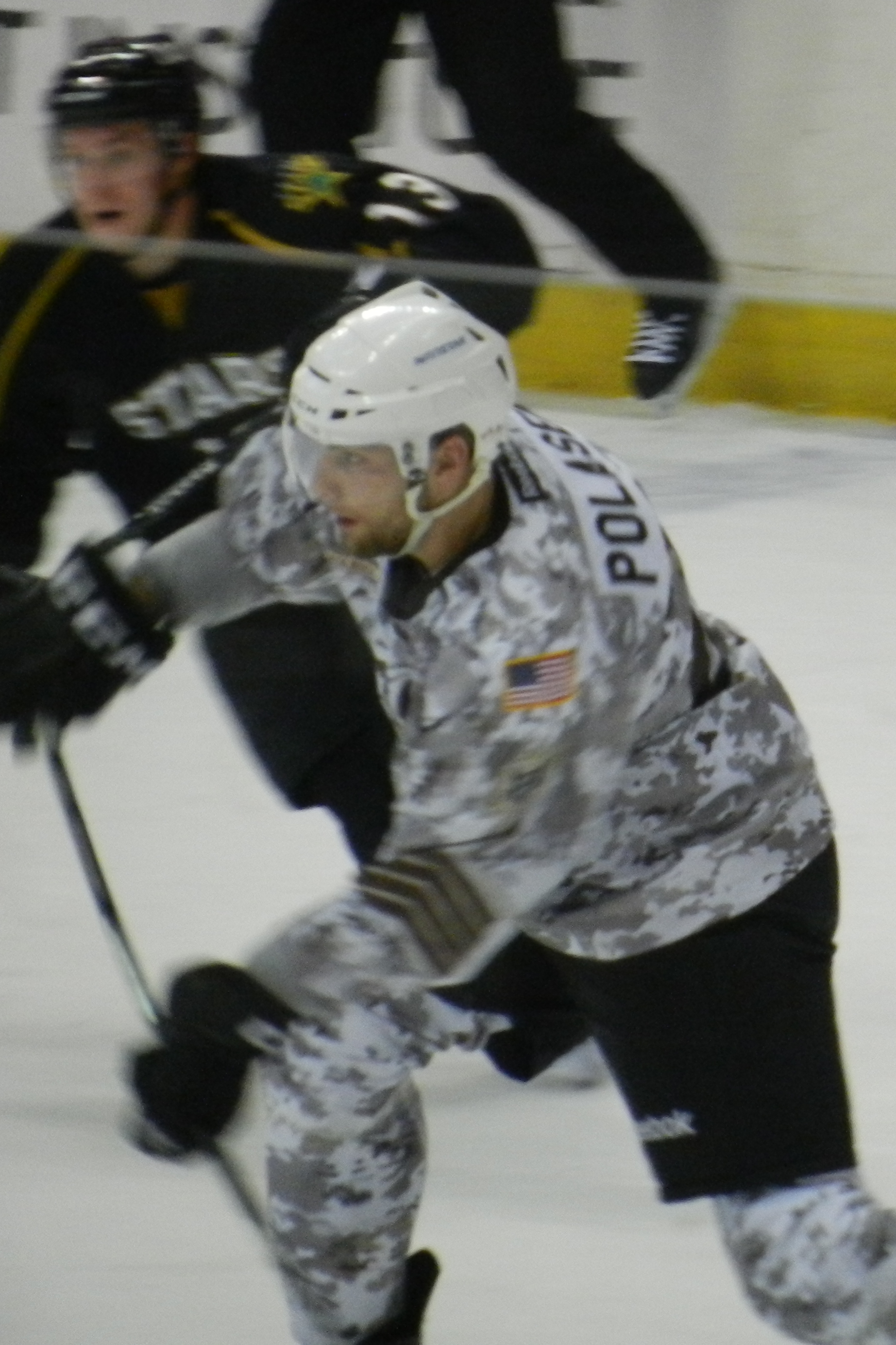 Adam Polasek playing for the American Hockey League's Chicago Wolves during their Military appreciation night in 2013